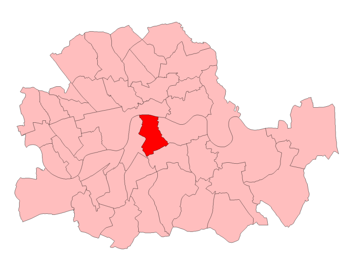 A map of Southwark constituency within the London County Council area, as it existed from 1950 to 1974.